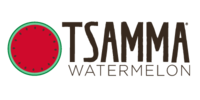 Tsamma logo 2018